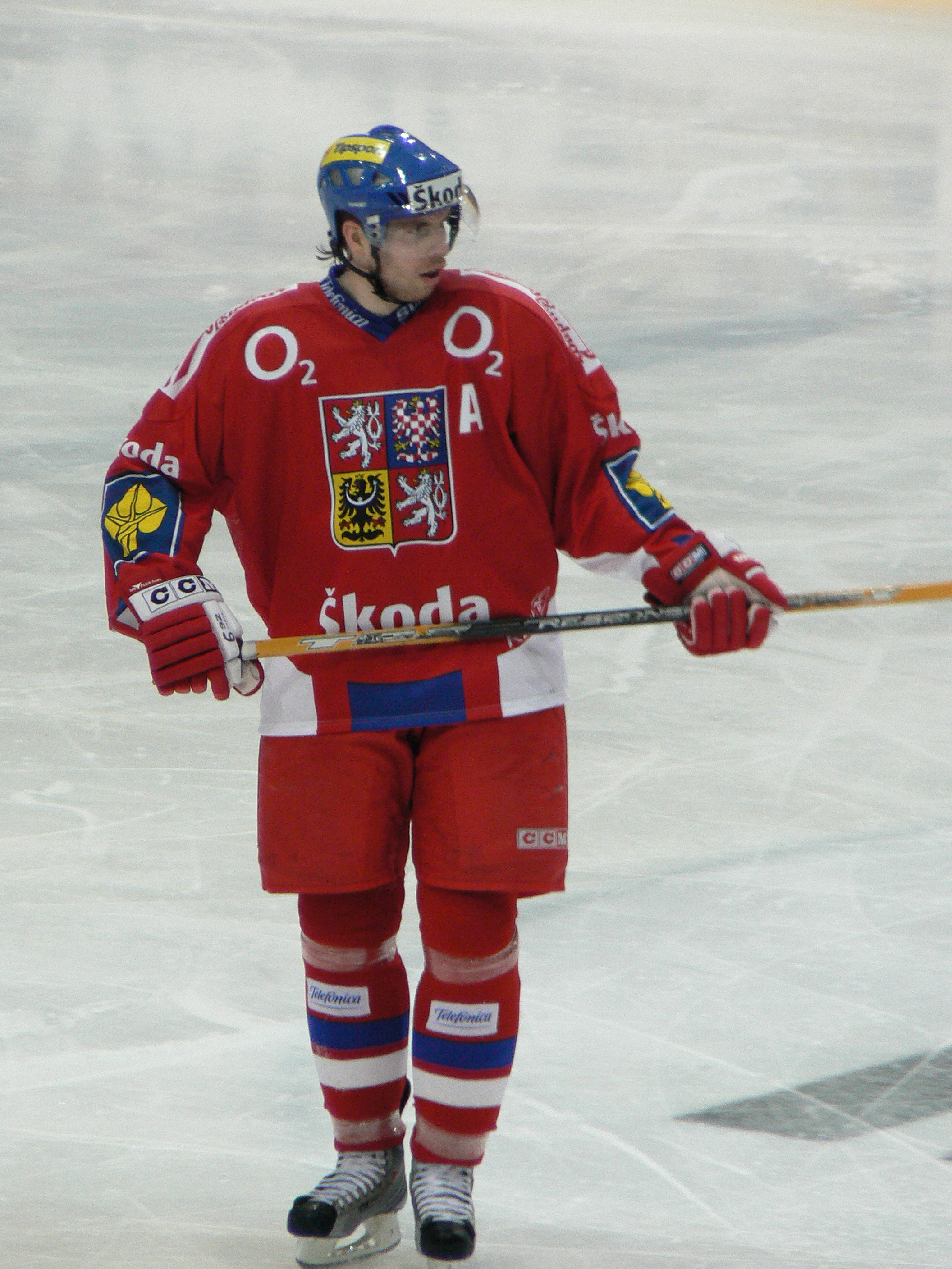 Czech ice hockey defenseman Tomáš Žižka playing for his national team in an LG Hockey Games / Euro Hockey Tour match against Team Finland in Tampere, Finland, February 2008